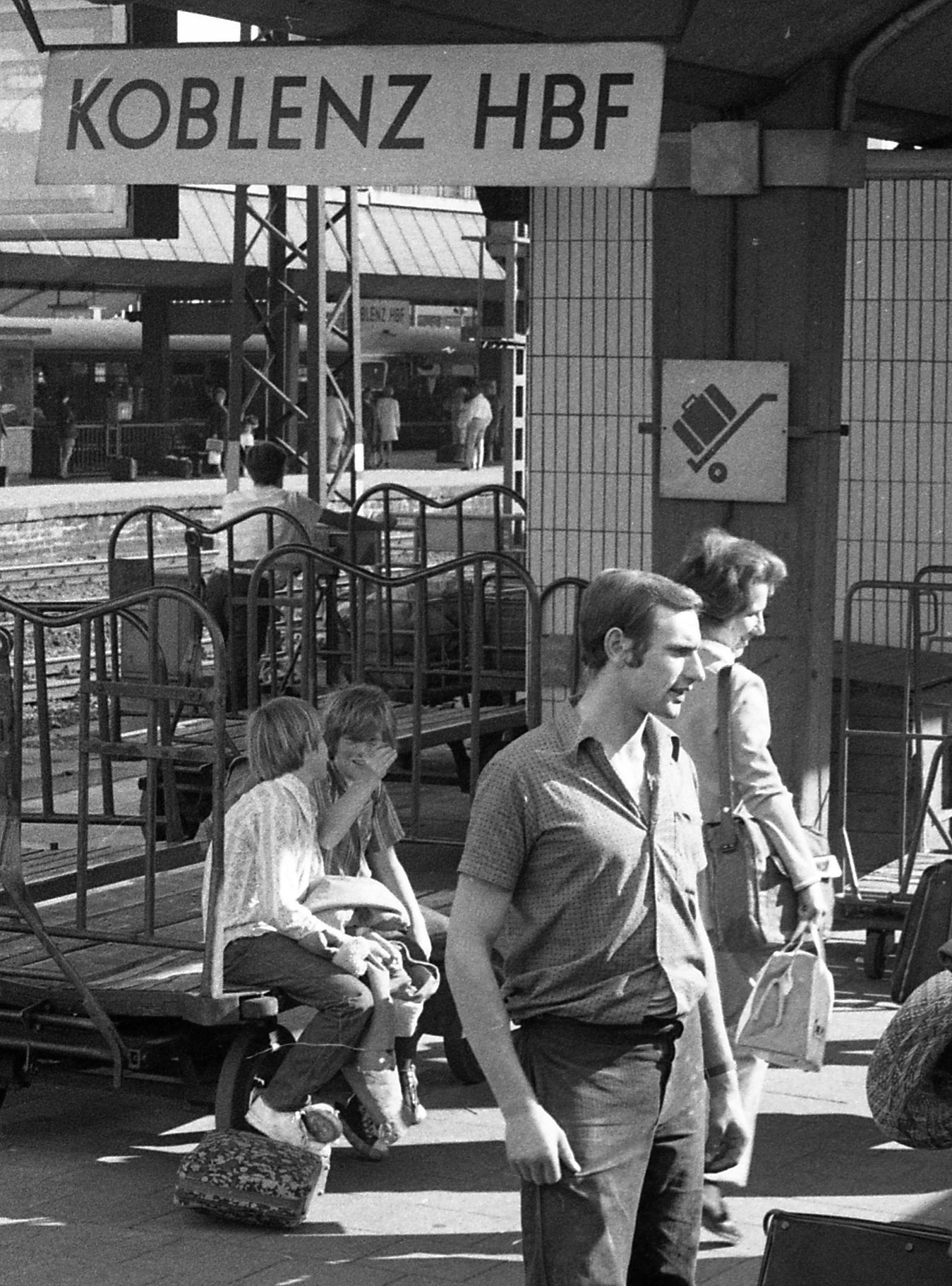 People waiting on platform at Koblenz, Germany, central train station, 1971. Other information Photo by George Garrigues.